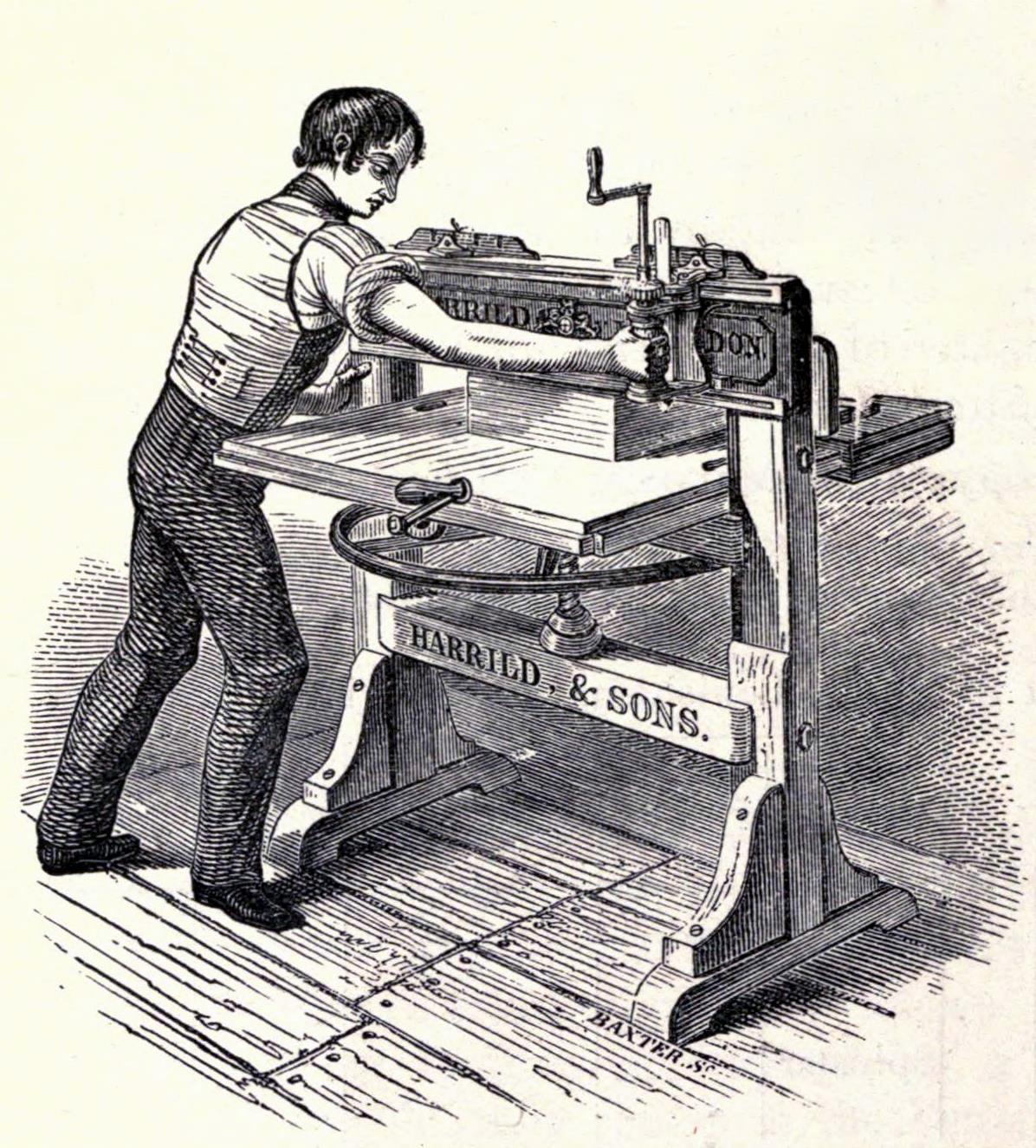 Old Style Paper Cutter, Woodcut engraving by George Baxter (1804-1867), commissioned by Robert Harrild.